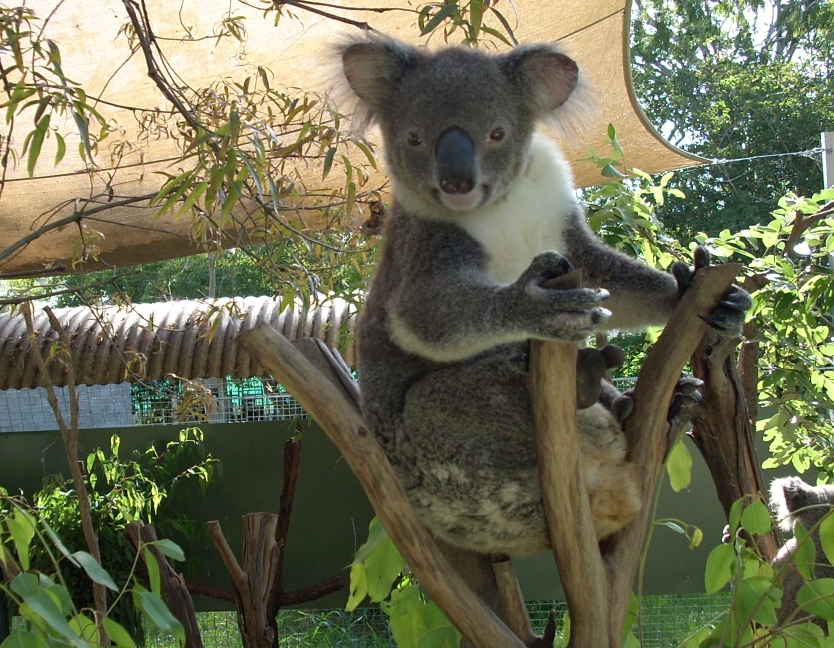 Koala Image taken at Rockhampton Botanical Gardens in Rockhampton, Central Queensland.